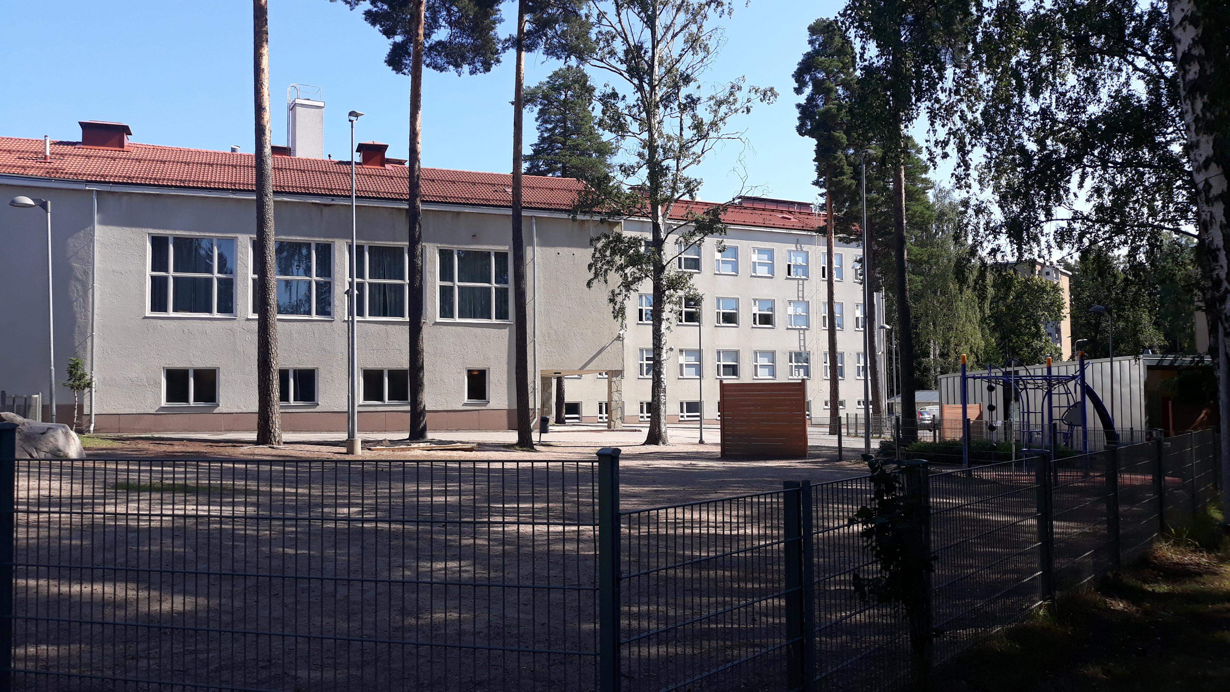 Maunula primary school.